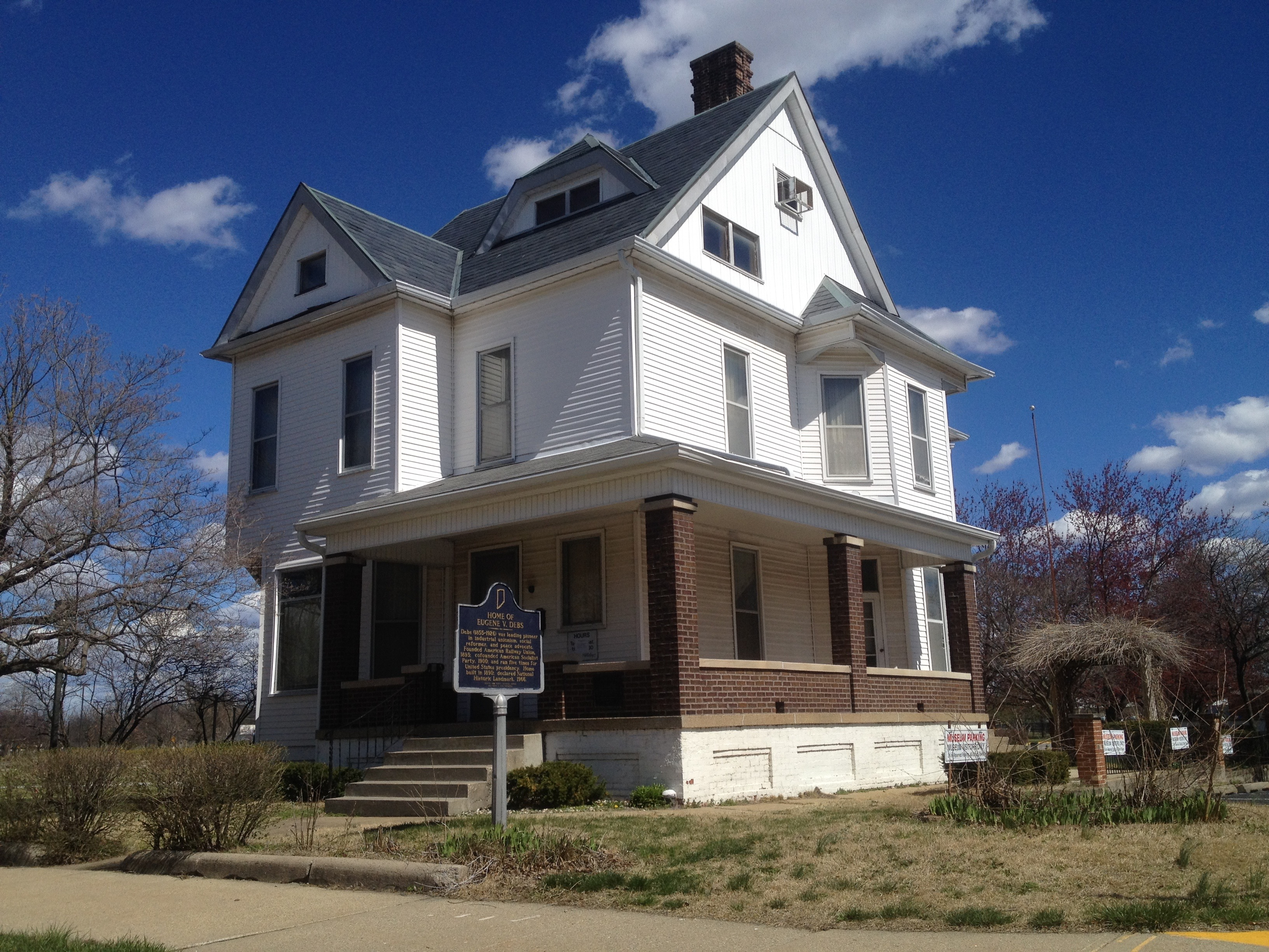 SW View of Eugene V. Debs House and Museum at 415 N. 8th Street in Terre Haute, IN